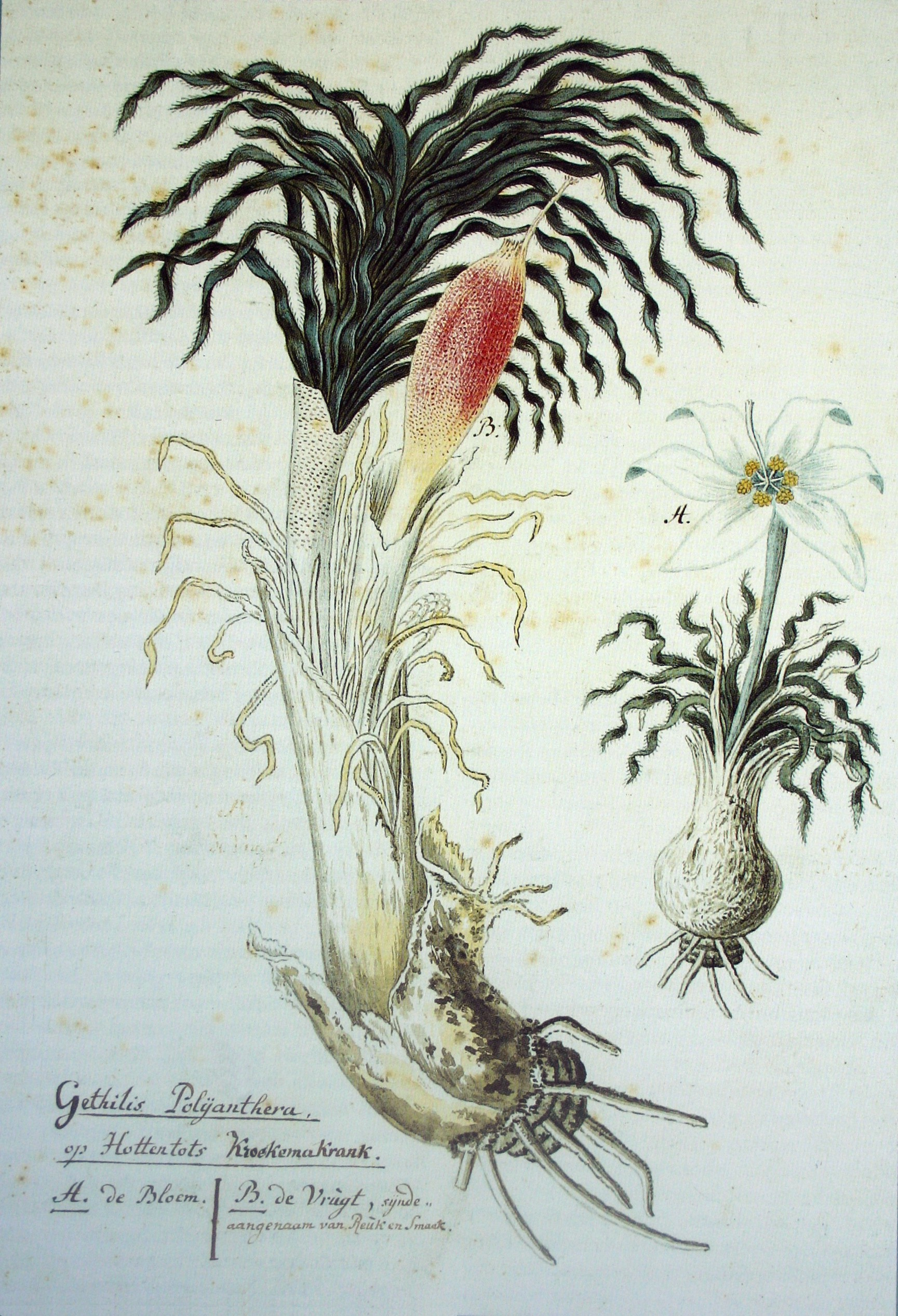 Painting of South African plant Gethyllis ciliaris (Amaryllidaceae)